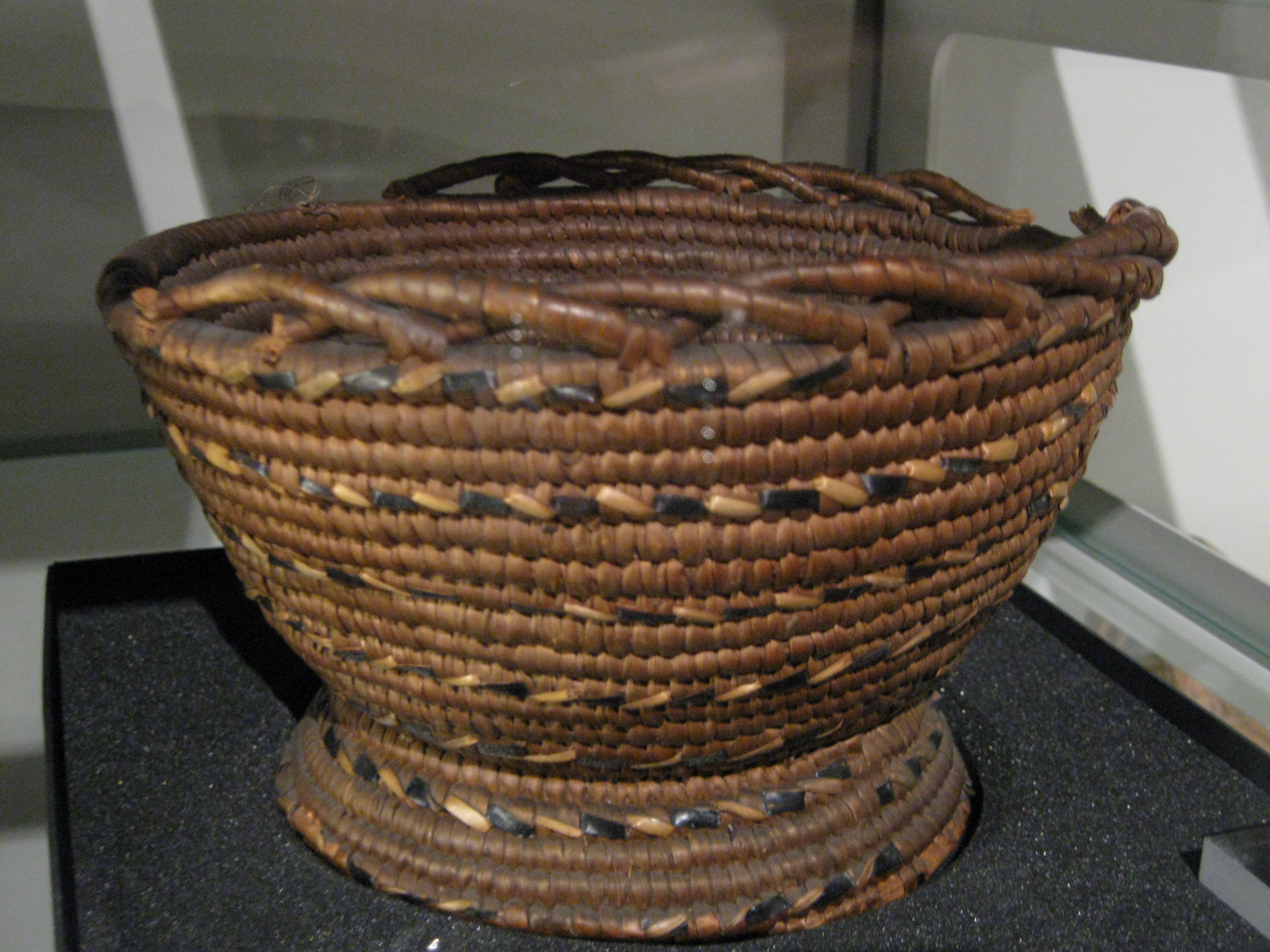 A native Indian Stl'atl'imx basket now in the collection of UBC's Museum of Anthropology in Vancouver, Canada. Its catalogue number is D1.389